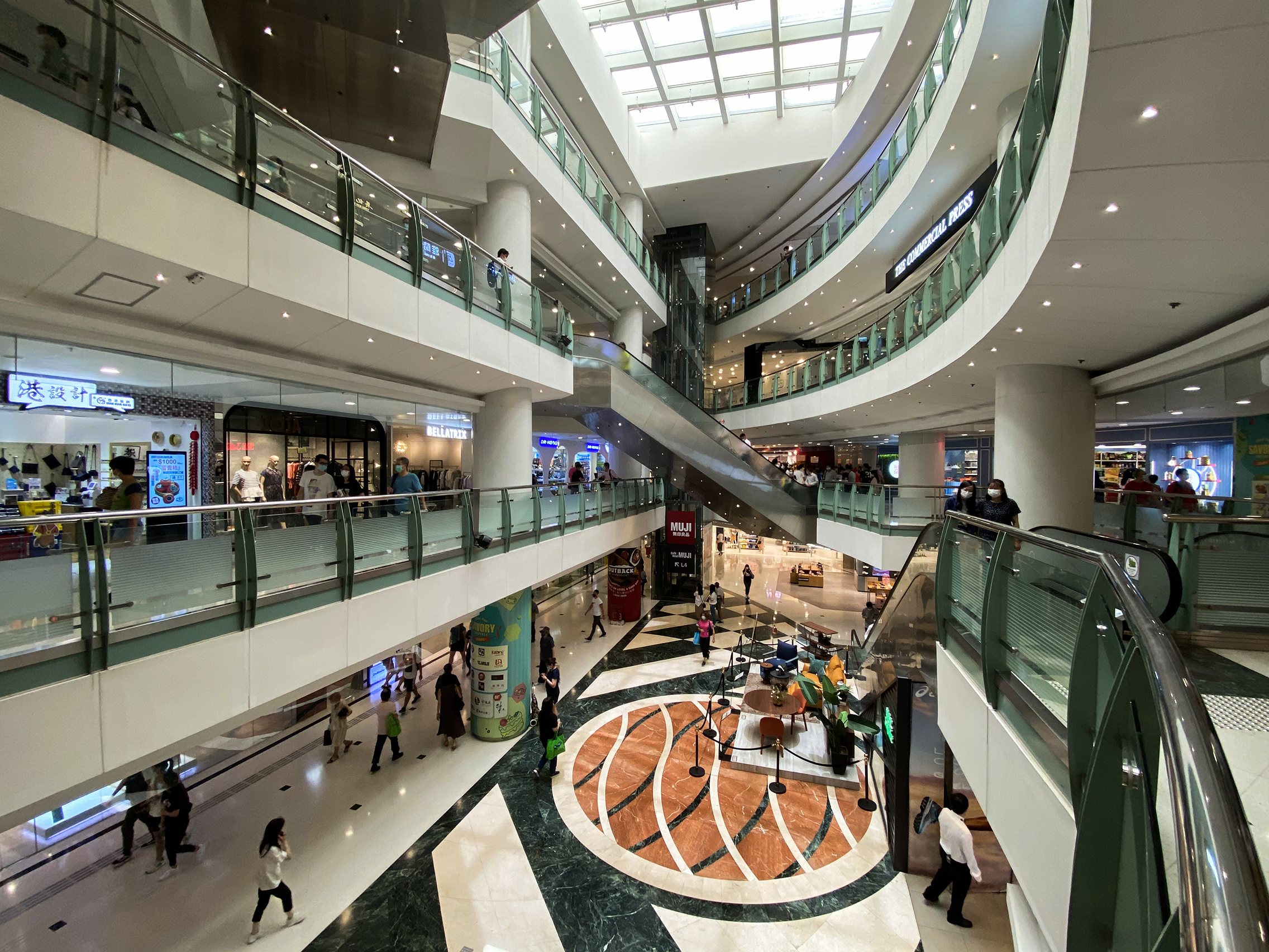 Telford Plaza Phase 2 Atrium